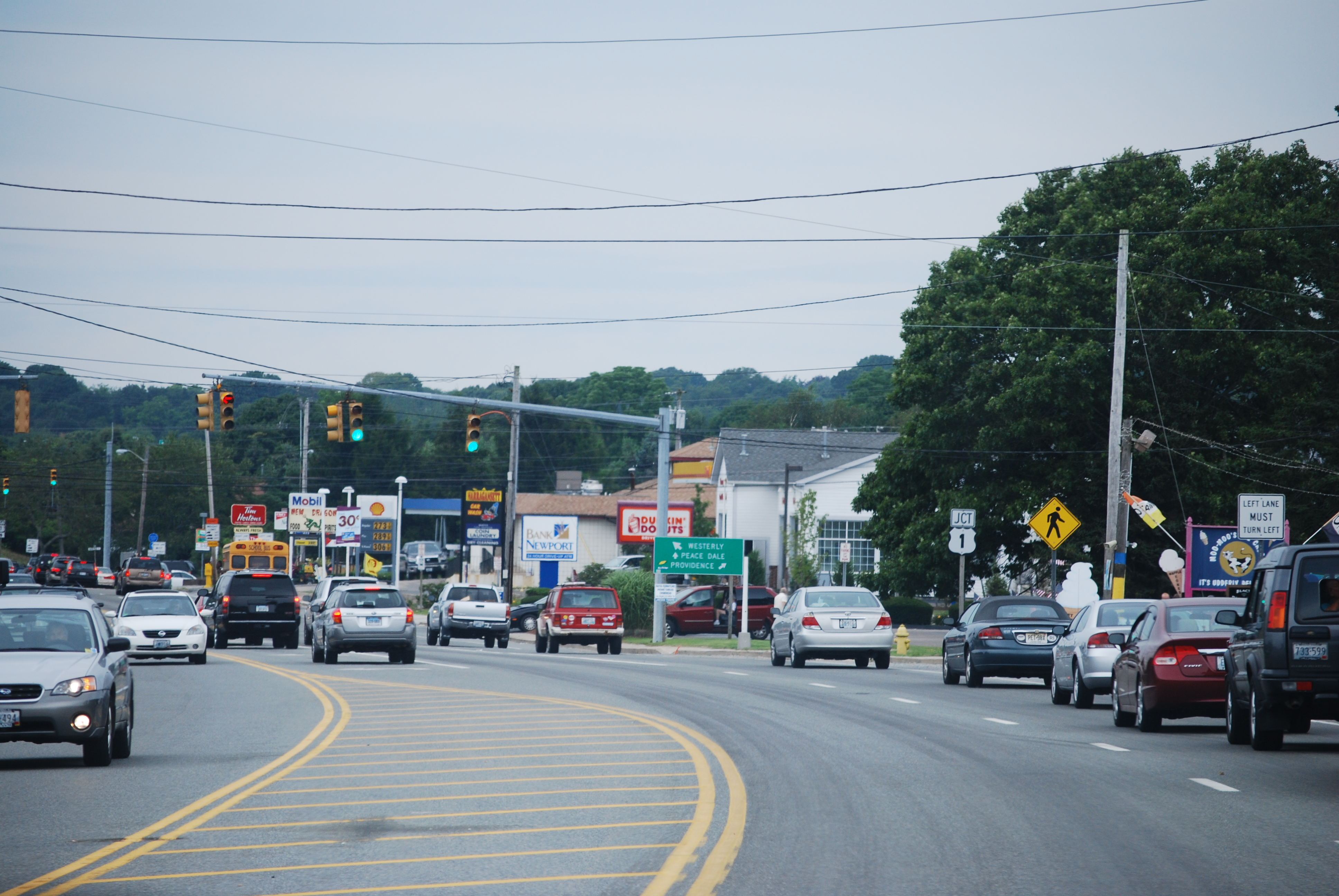 RI Route 108 at the intersection with US Route 1 in Narragansett, Rhode Island.